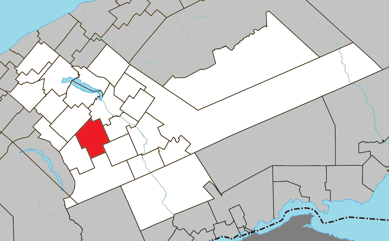 Location of Saint-Léon-le-Grand, Quebec within La Matapédia Regional County Municipality.